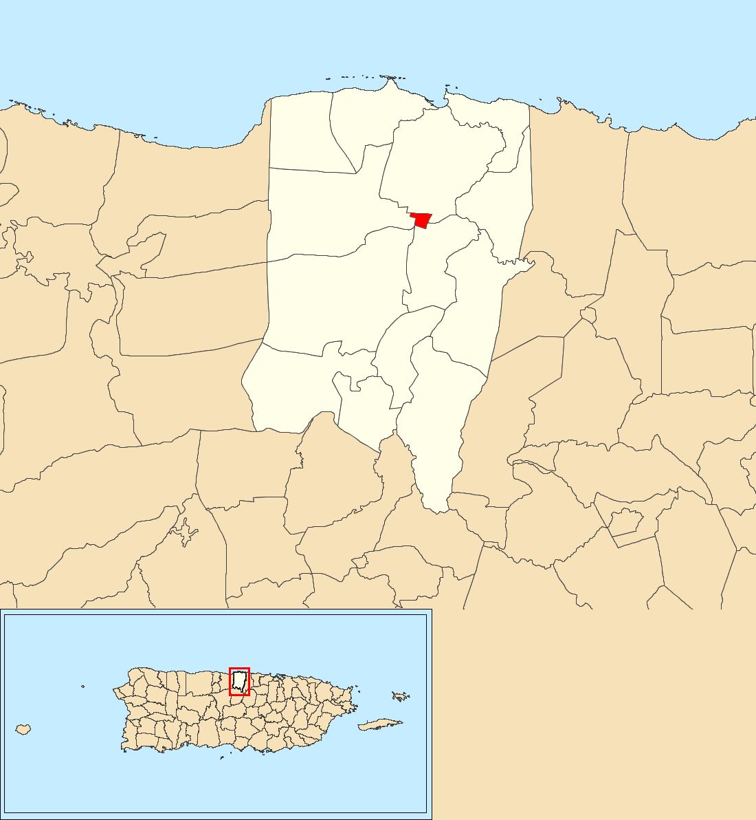 Vega Baja barrio-pueblo, Vega Baja, Puerto Rico locator map